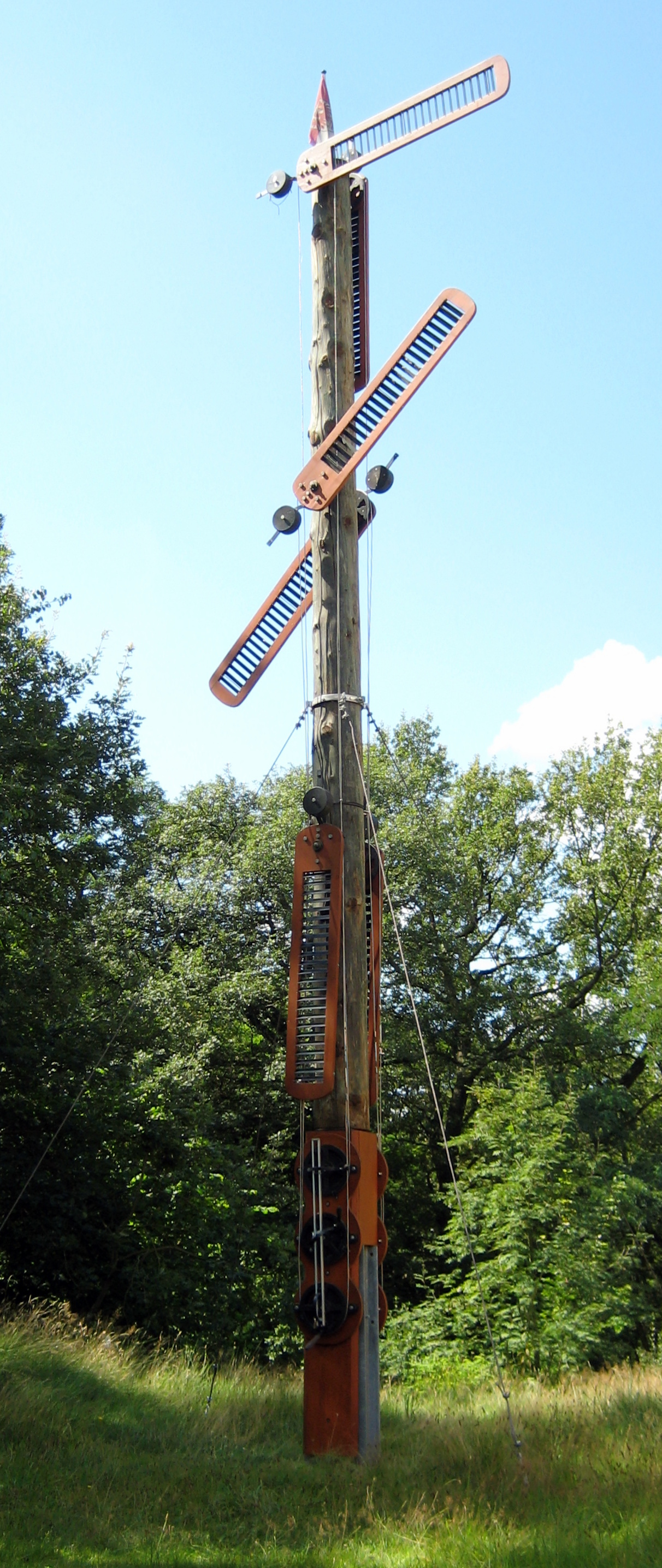 reconstruction of the signal mast of the Prussian semaphore system in Potsdam